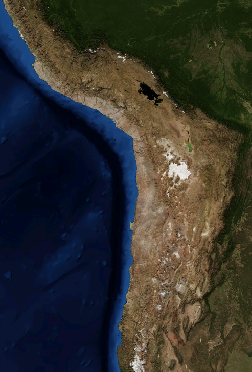 NASA World Wind 1.4 used.